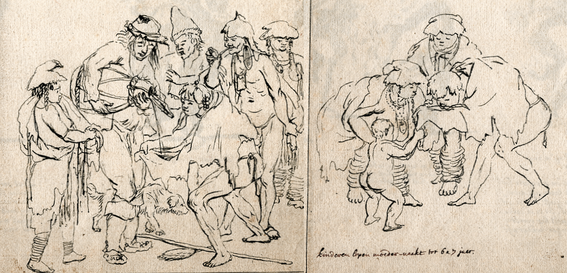 These two sketches are from a set of 27 drawings on 15 sheets that was discovered in the National Library of South Africa in 1986. The drawings are important for presenting the earliest realistic depictions of the Khoikhoi, the original inhabitants of the Western Cape. On the left, Khoikhoi are being given a drink by a colonist, a kaross (a cape or blanket made from skins) serving as the receptacle into which it is poured. The right-hand drawing shows the sequel, with a man drinking from the kaross. The notes, in Dutch, provide information about Khoikhoi houses, dress, and hairstyles. Much information about the Khoikhoi is available from early European accounts, but few illustrations exist. The drawings in the collection were made in situ and, unlike most early European depictions of the Khoikhoi, were never filtered through the eyes of European engravers. The artist most likely was a Dutchman, born in the 17th century, who was attached in some capacity to the Dutch East India Company and possibly en route to the Dutch East Indies or on his way back to the Netherlands when he visited the Cape. Evidence suggests that the drawings were made no later than 1713, and possibly a good deal earlier. Most of the drawings have annotations, made by another person, also unidentified, after 1730. Cape of Good Hope; Clothing and dress; Eating and drinking; Indigenous peoples; Khoikhoi (African people); Manners and customs; Netherlands--Colonies